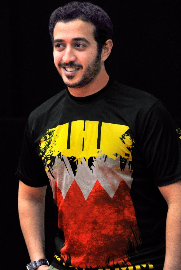 Sheikh Khalid